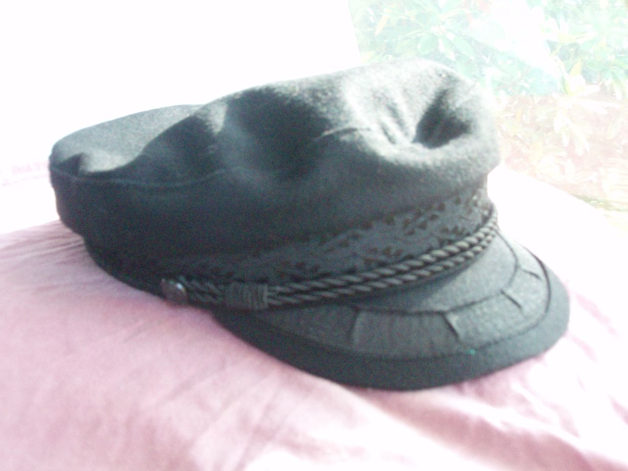 Peaked cap of a type originally worn by crew members on the Vega, circumnavigating Eurasia in early 20'th century, nowadays common among yachters